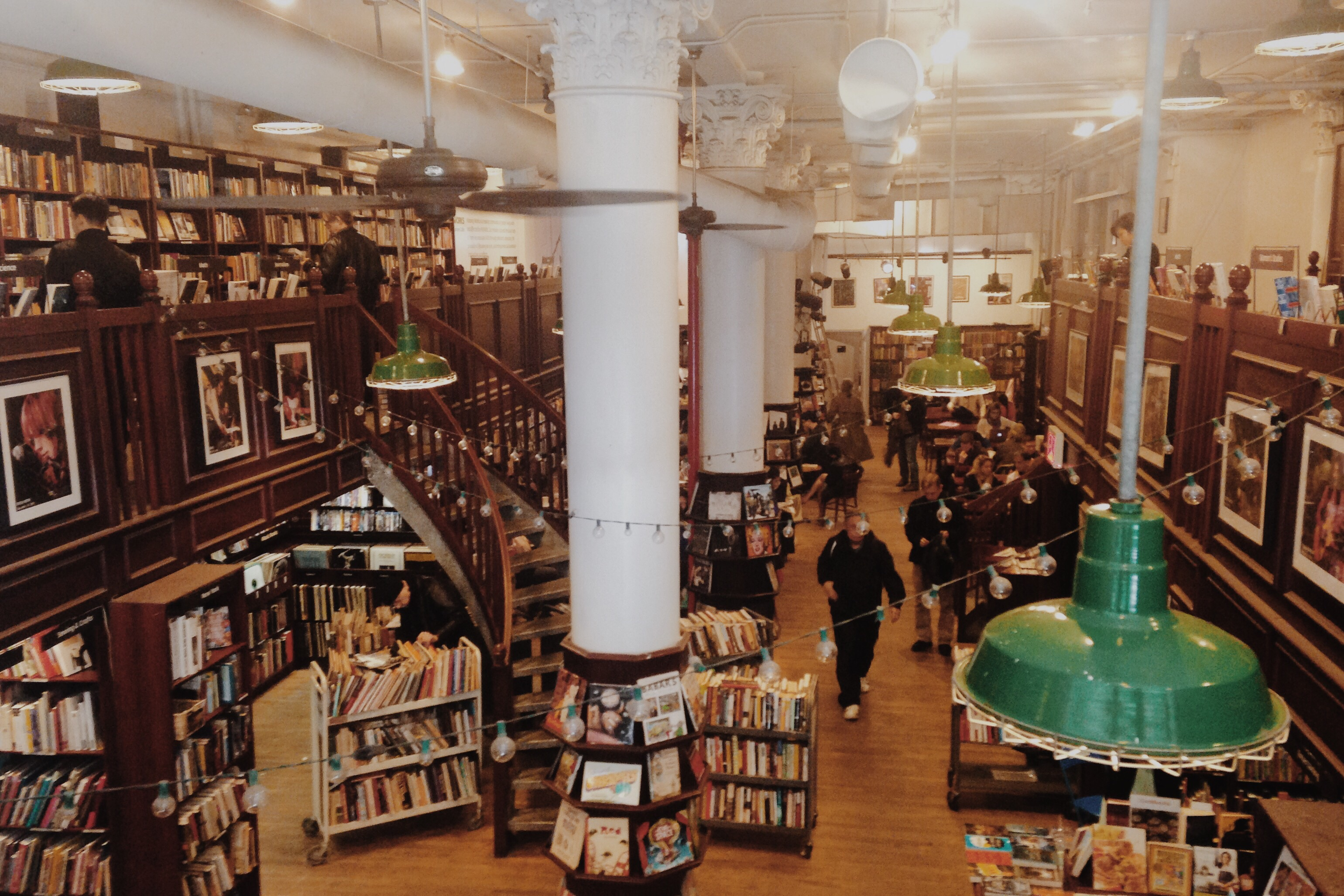 Housing Works Cafe and Bookstore in SoHo, New York City. April 2015.